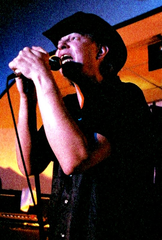 Metal Urbain @ Trianon - Lion-sur-Mer